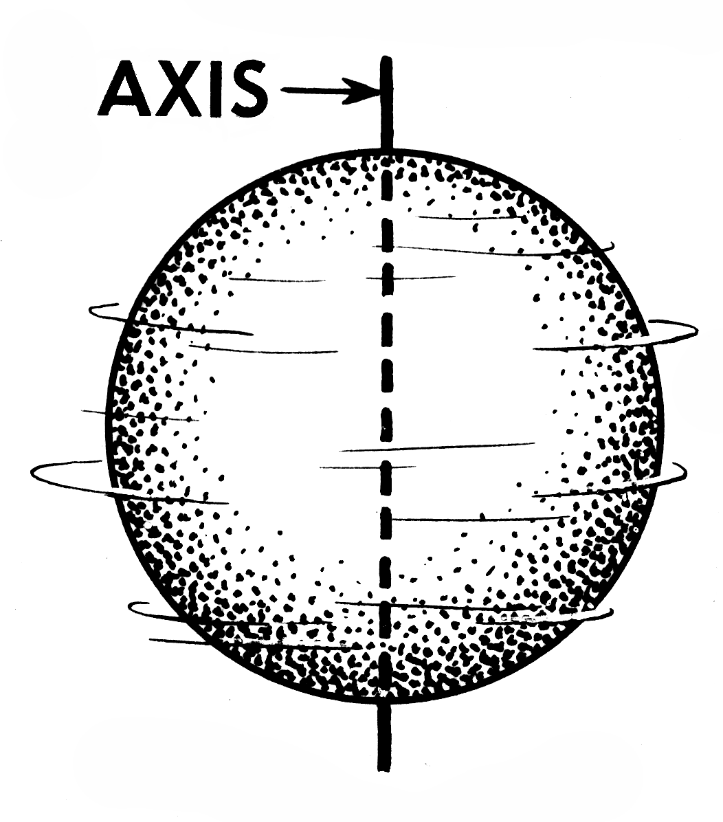 Line art drawing of an axis.